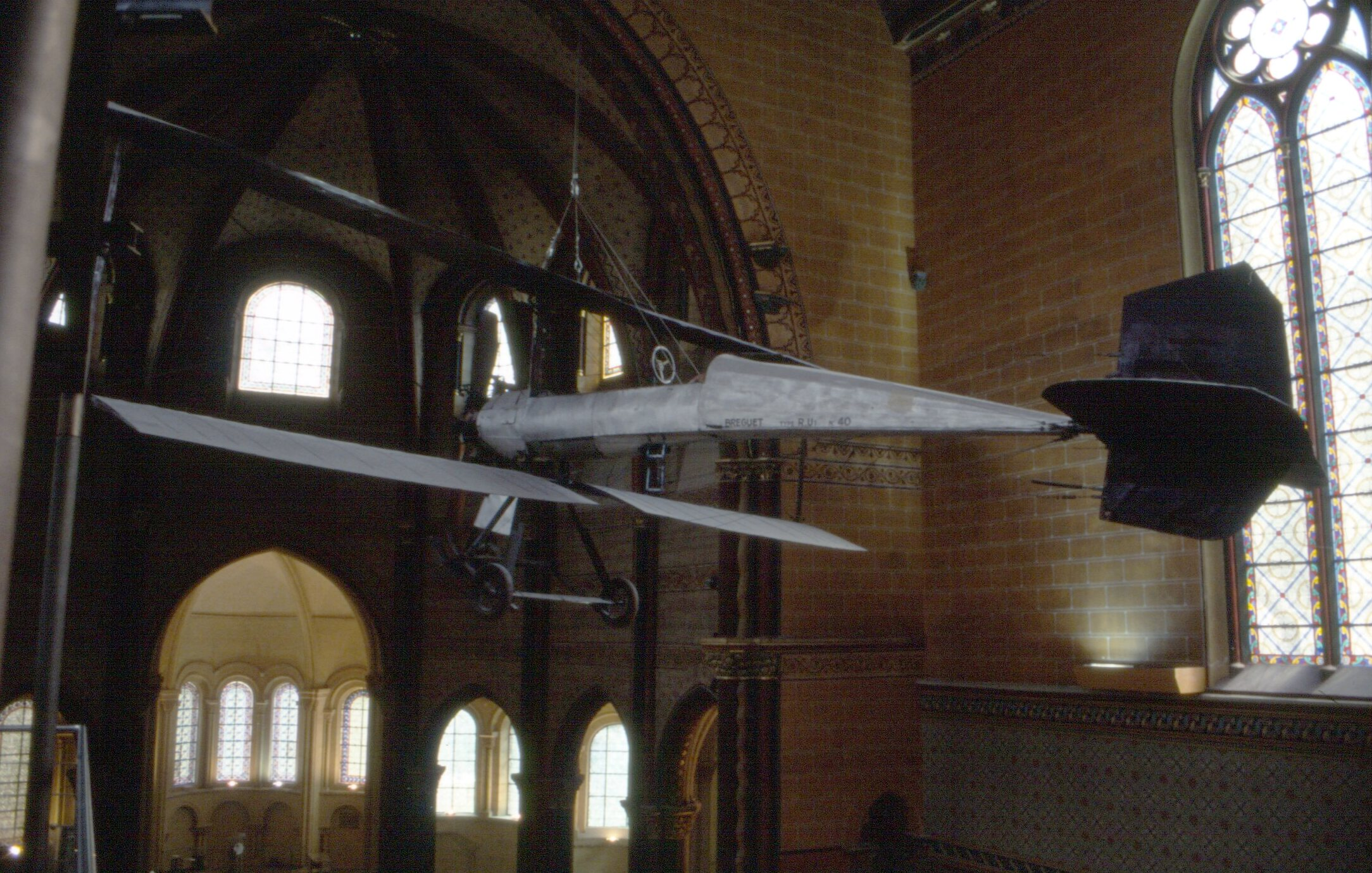 Breguet biplan airplane, Type R.U1, No.40, built in 1911